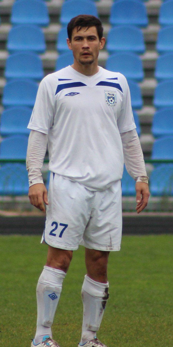 Jurii Bulytchev